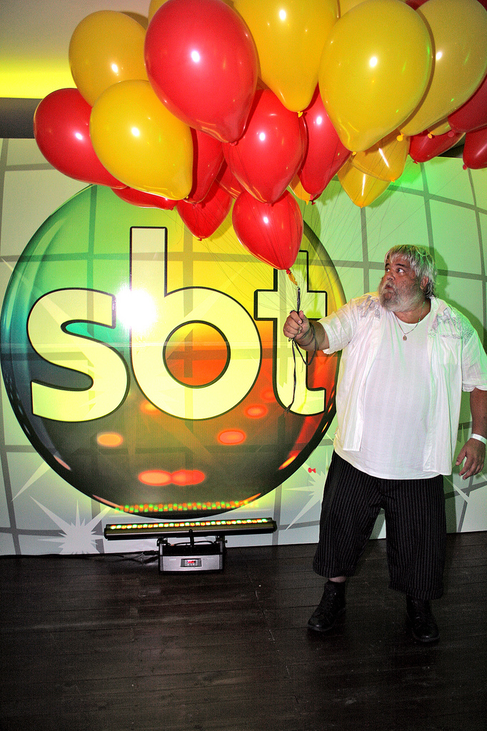 Television presenter of Brazil, Miranda